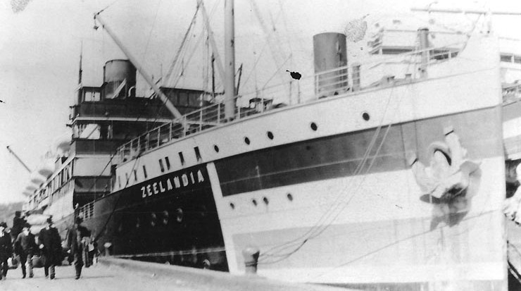 Dutch passenger ship SS Zeelandia prior to her 1918-1919 U.S. Navy service as transport ship USS Zeelandia (ID-2507). She is shown at New York City, wearing World War I neutrality markings, with a large Dutch flag painted on her bow.